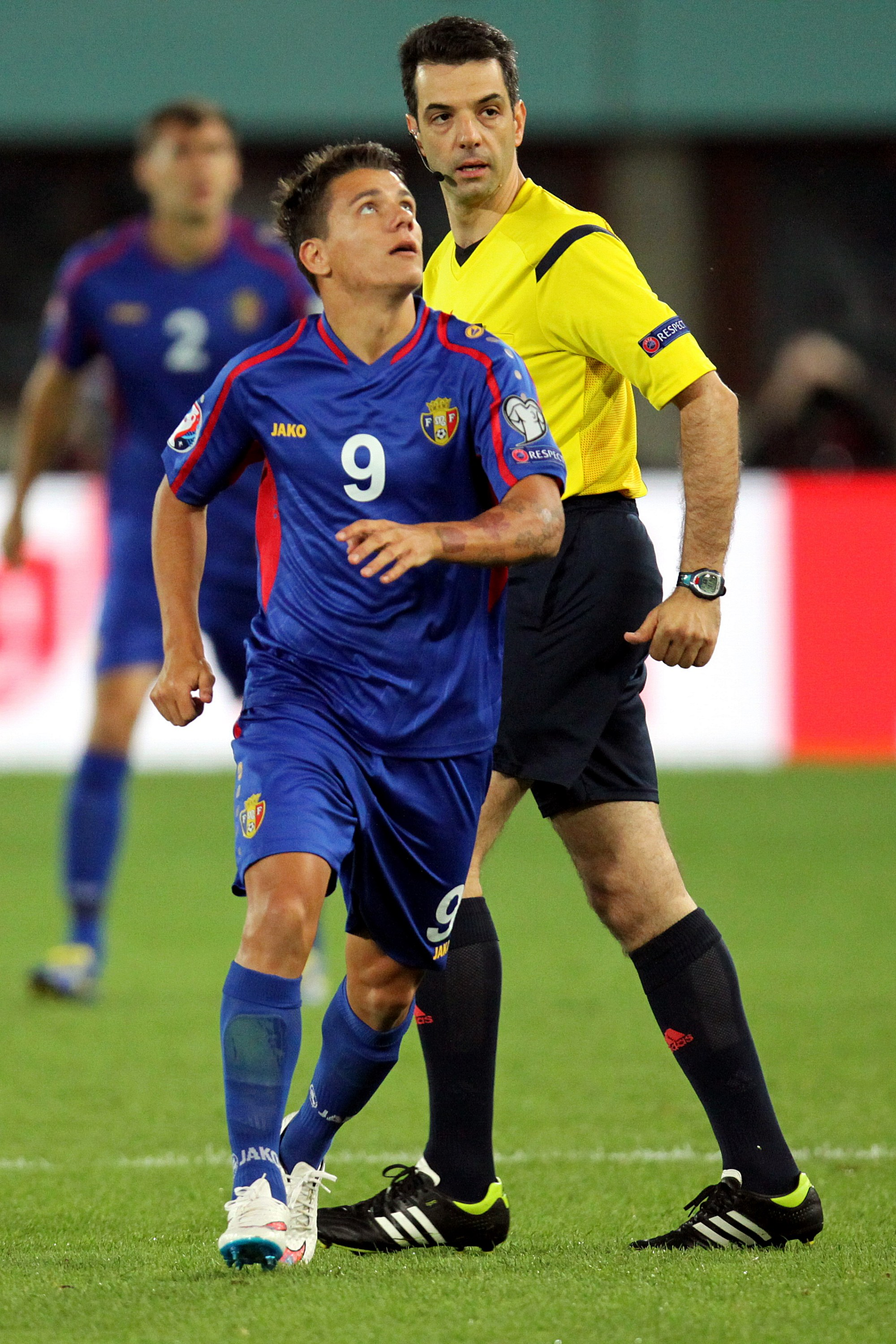 UEFA Euro 2016 qualifying, Group G – Austria national football team (red shirts) vs. Moldova national football team (blue shirts) on 2015-09-05 in Ernst-Happel-Stadion, Vienna: The photo shows Gheorghe Andronic (in front) and referee Aleksandar Stavrev (MKD).